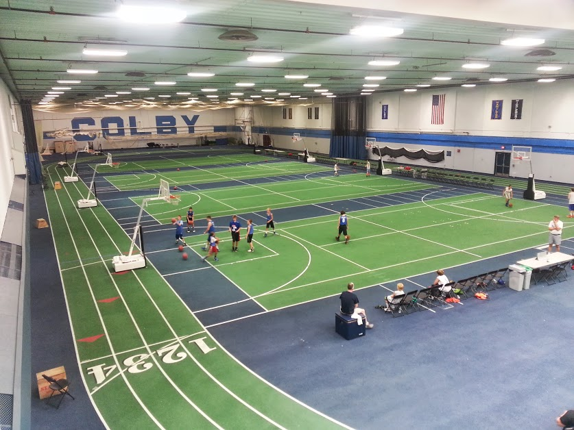 Colby College-Fieldhouse inside the Harold Alfond Athletic Center, with indoor track and four convertible tennis or basketball courts.